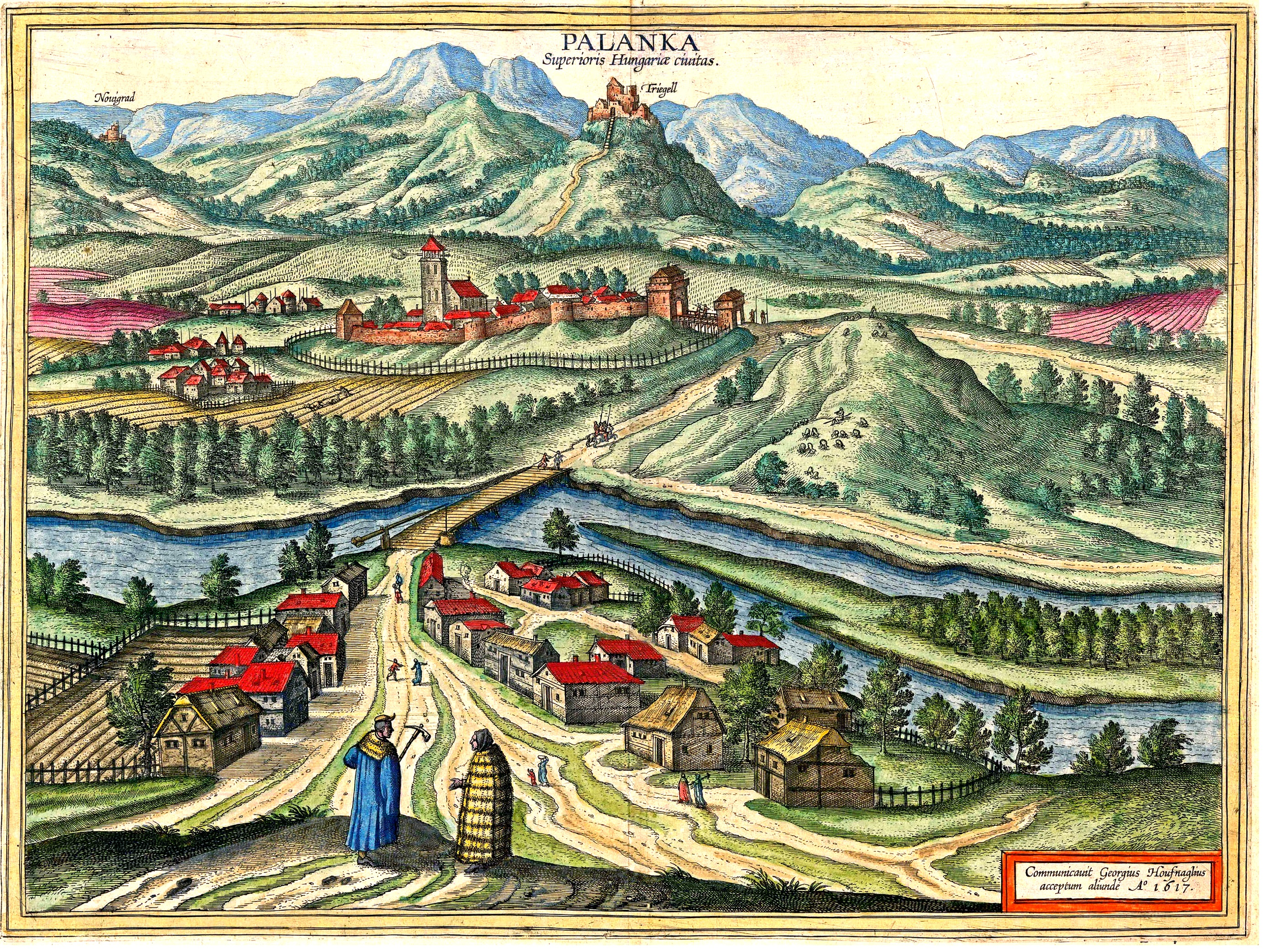 Drégely in the 1590s.